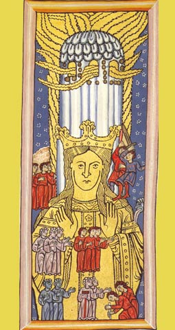 "Gesalbt mit dem Heiligen Geiste" : Fac Simile du Scivias de Ste Hildegarde de Bingen, image 13.